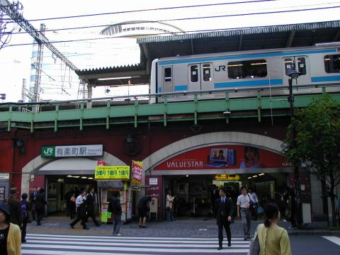 Yurakucho Station, Tokyo